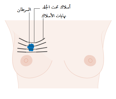 علاج سرطان الثدي بالإشعاع الداخلي